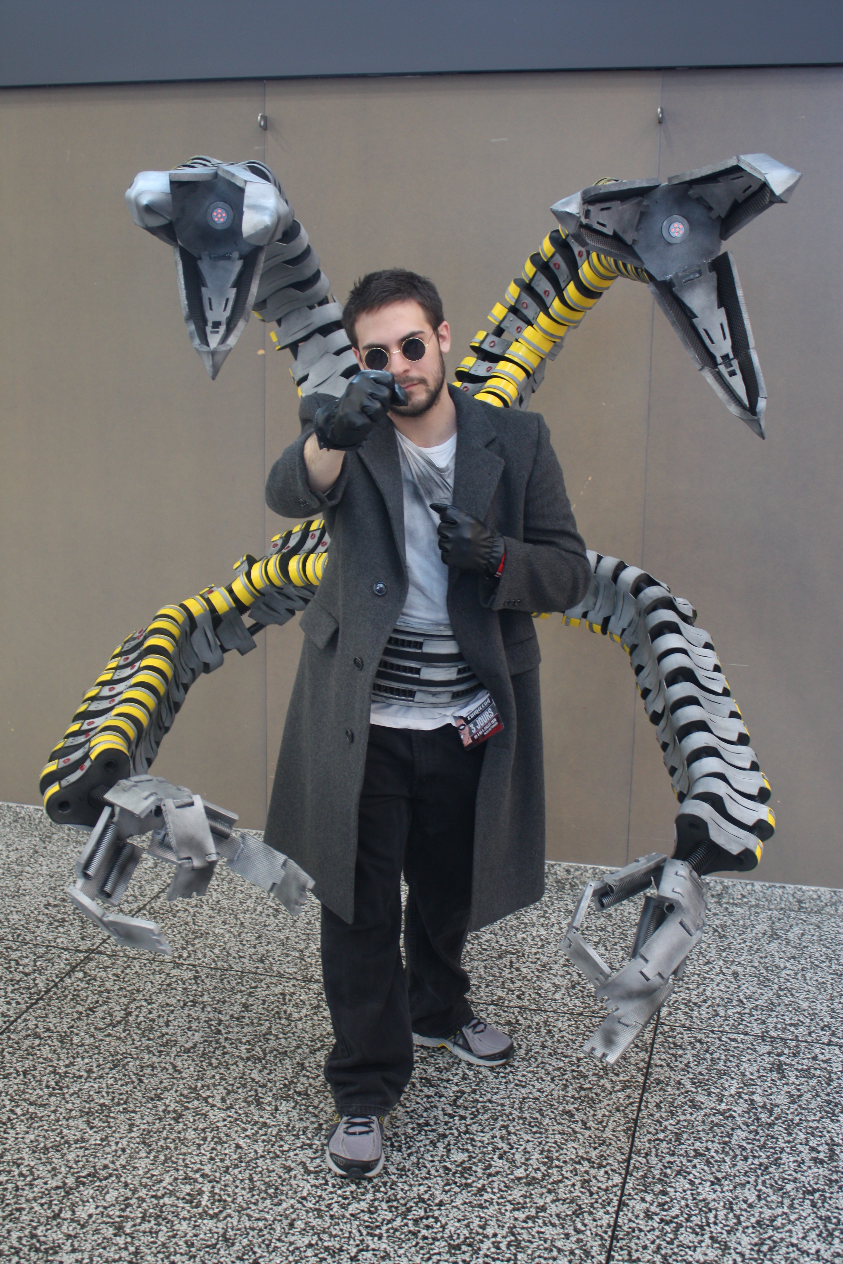 Cosplay one day one of Montreal Comiccon 2015.